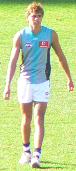 Nathan Krakouer playing for Port Adelaide during the 2007 AFL Season